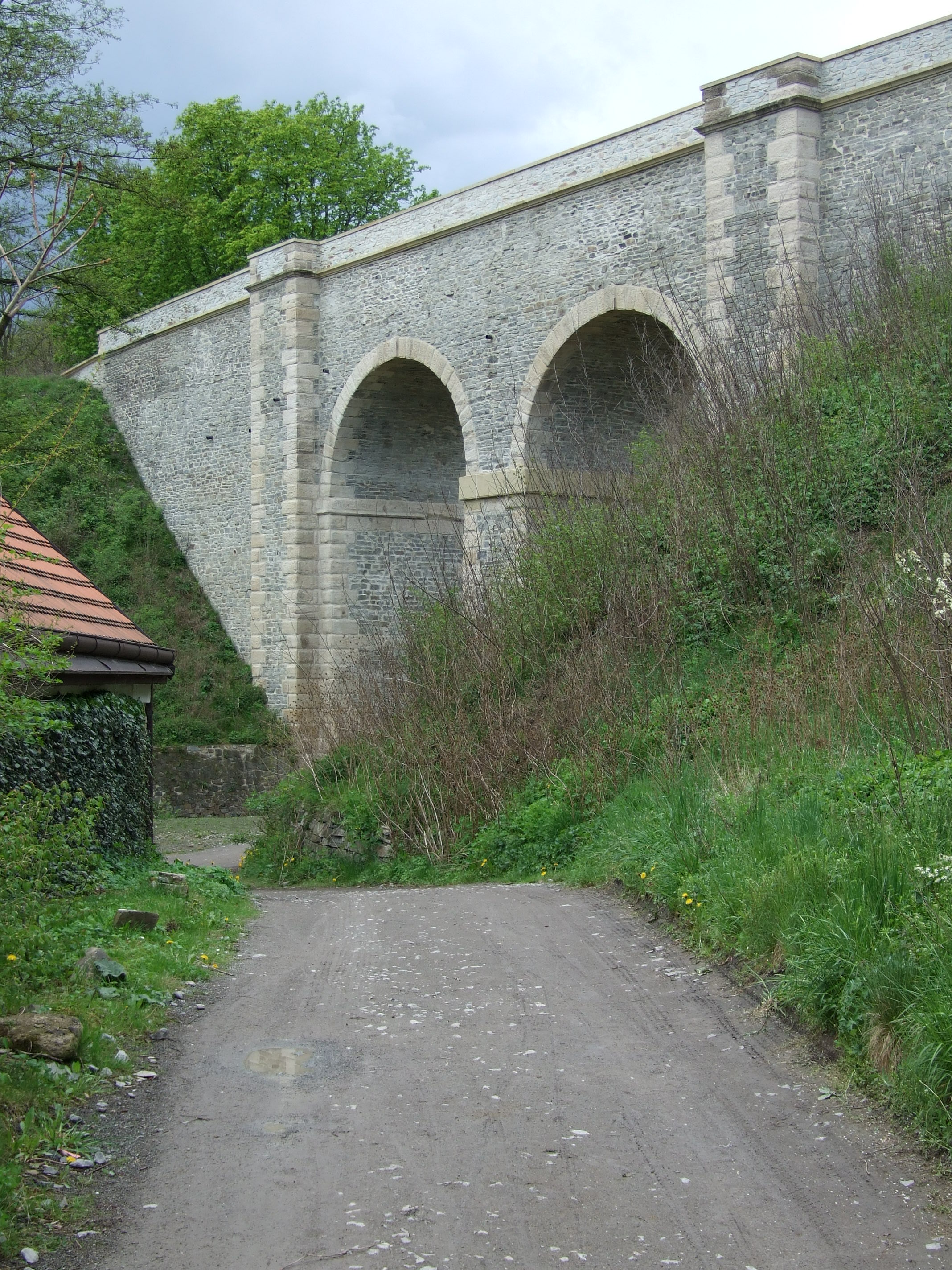 Rail viaduct of Hostivice - Podlešín line over the Zákolanský potok stream in Noutonice near Okoř, Central Bohemian Region, Czech Republic.